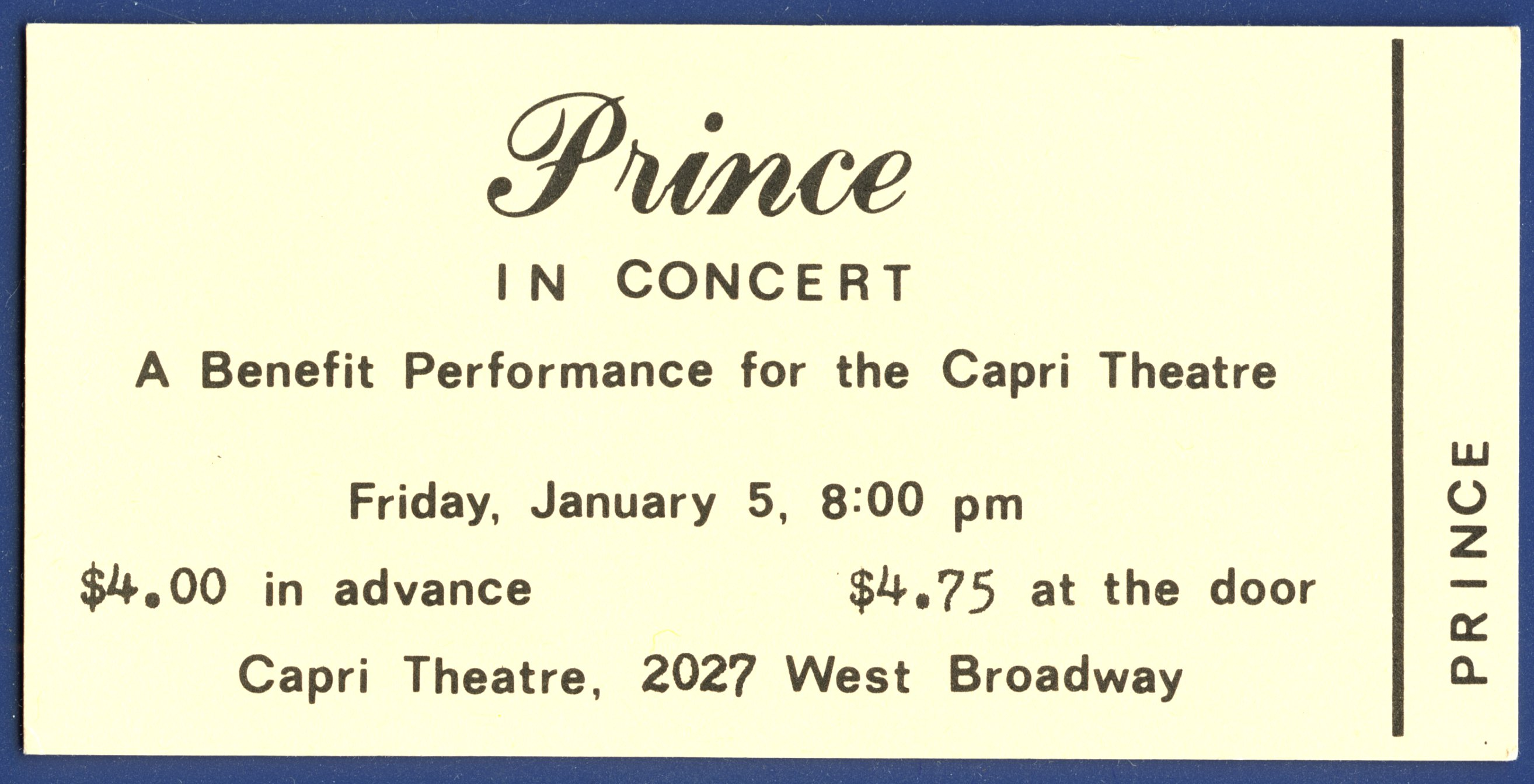 Ticket to Prince's first concert at the Capri Theatre, Minneapolis, Minnesota, on January 5, 1979.